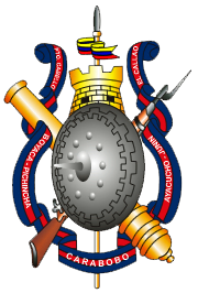 Seal of the Venezuelan Army